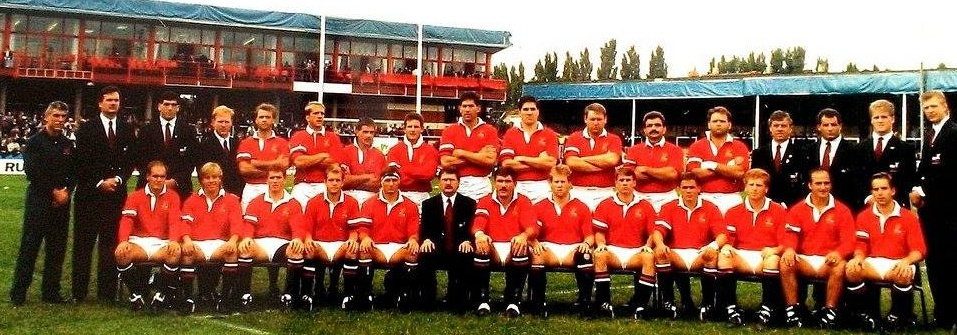 Pre All Blacks Match Photo of the 1991 Eagles Rugby World Cup Squad in Gloucester, England.